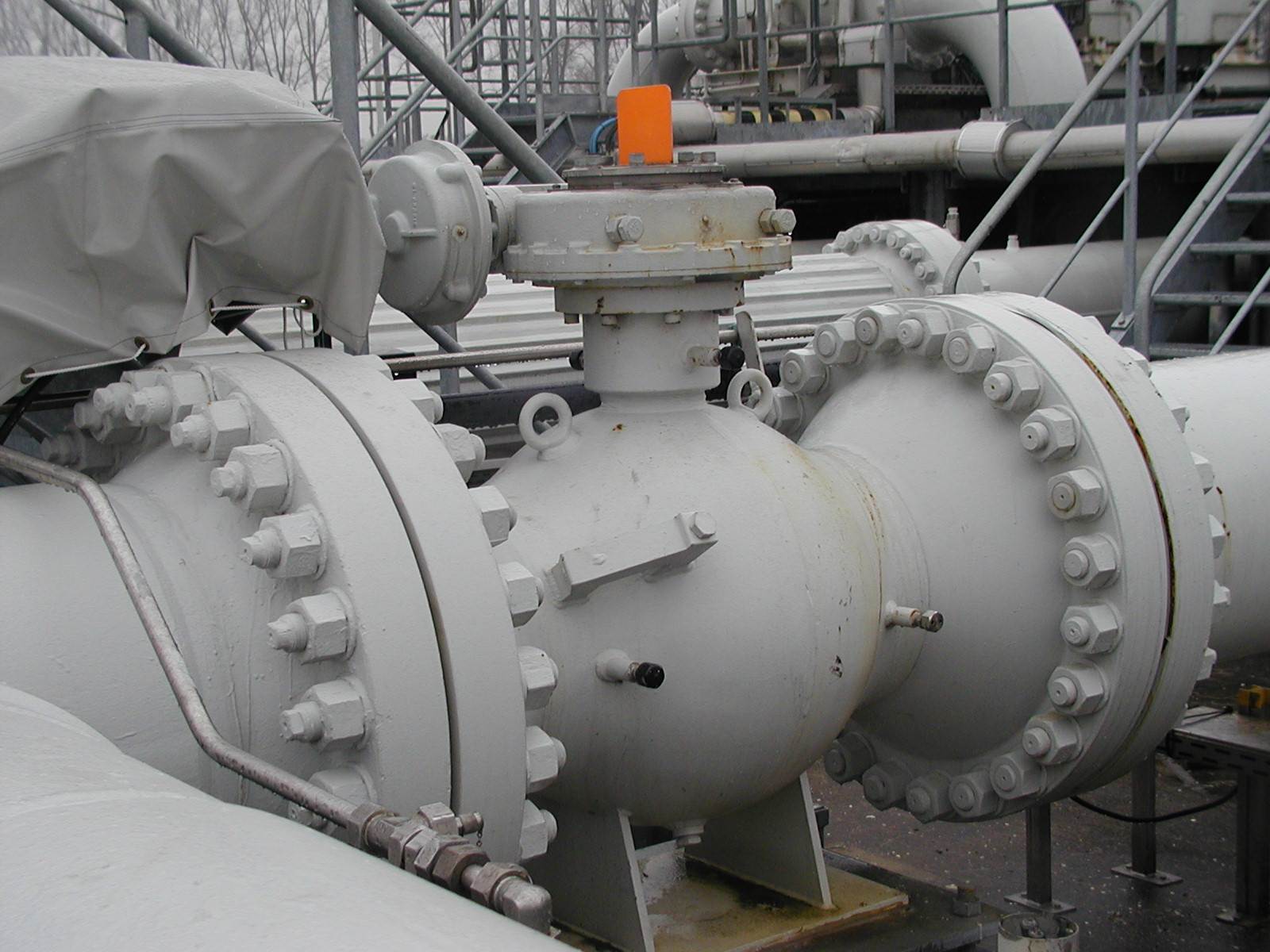 Ball valve in a pipeline pump station, closed, as recognizable by the orange indicator plate